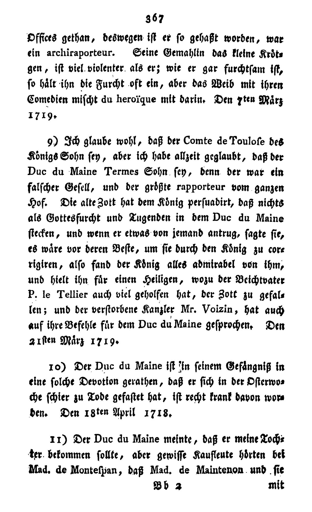 This is a scan of the historical document